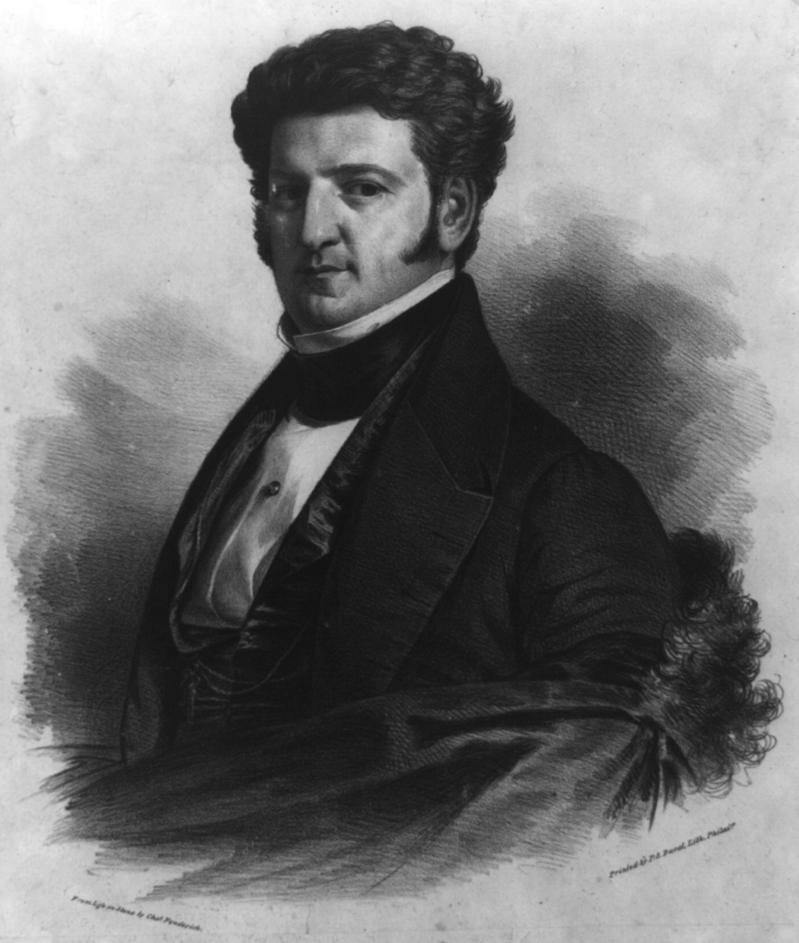 "A. Mouton, Senator from Louisiana". Engraved portrait of Alexandre Mouton.